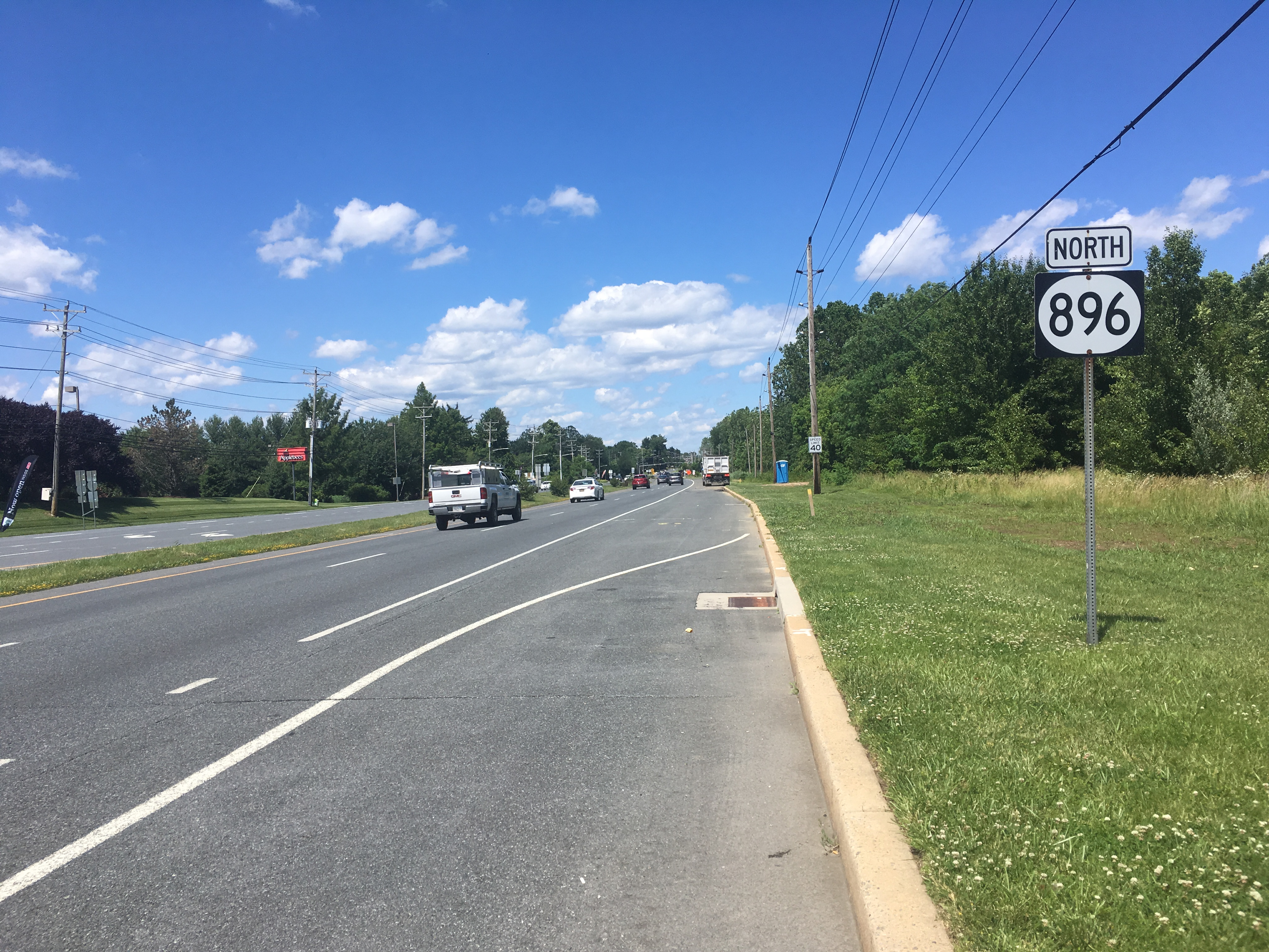 Northbound Delaware Route 896 (Elkton Road) past the intersection with the western terminus of Delaware Route 4 (Christiana Parkway) and Delaware Route 279 (Elkton Road) in Newark, Delaware